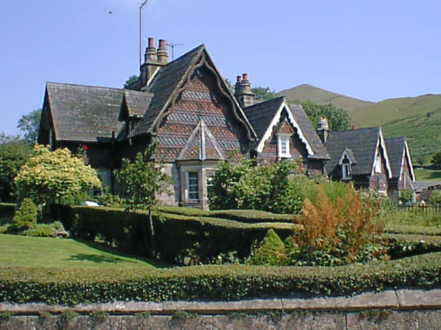 Ilam Cottages, near to Ilam, Staffordshire, Great Britain.